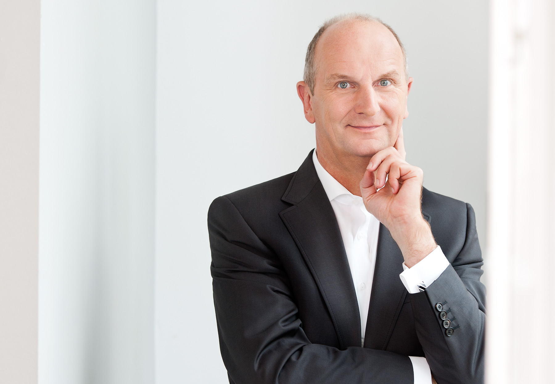 A portrait photo of Dr. Dietmar Woidke.